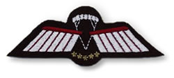 Para Wing D Netherlands